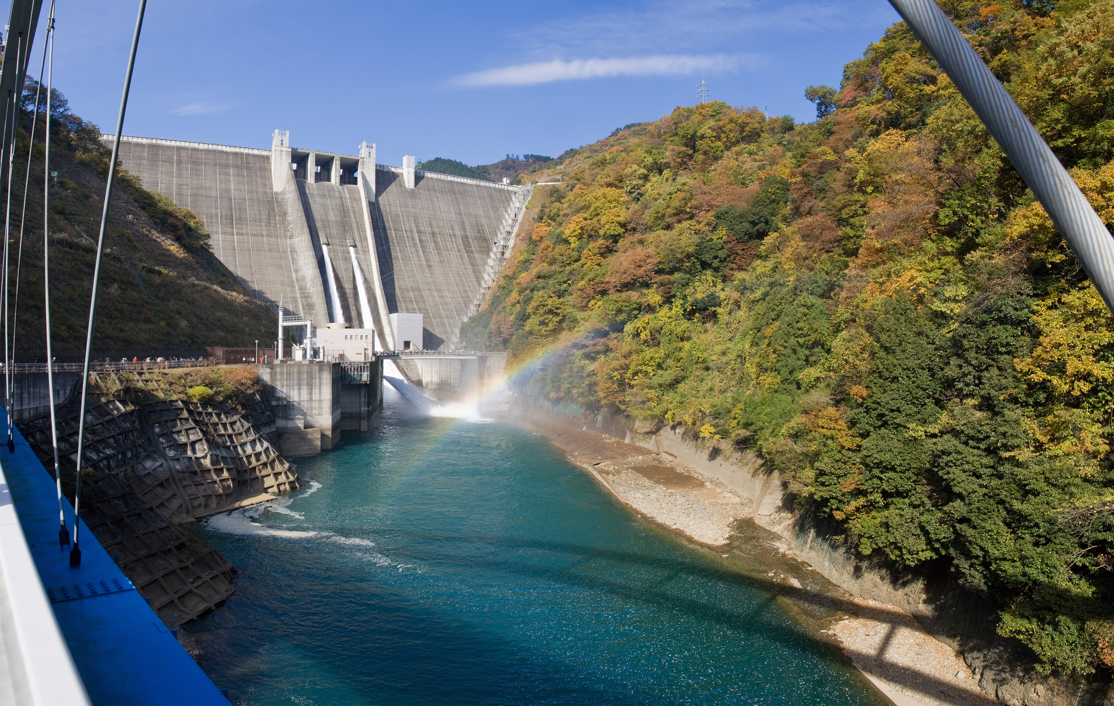 Miyagase Dam in Aikawa-town, Kanagawa, Japan.